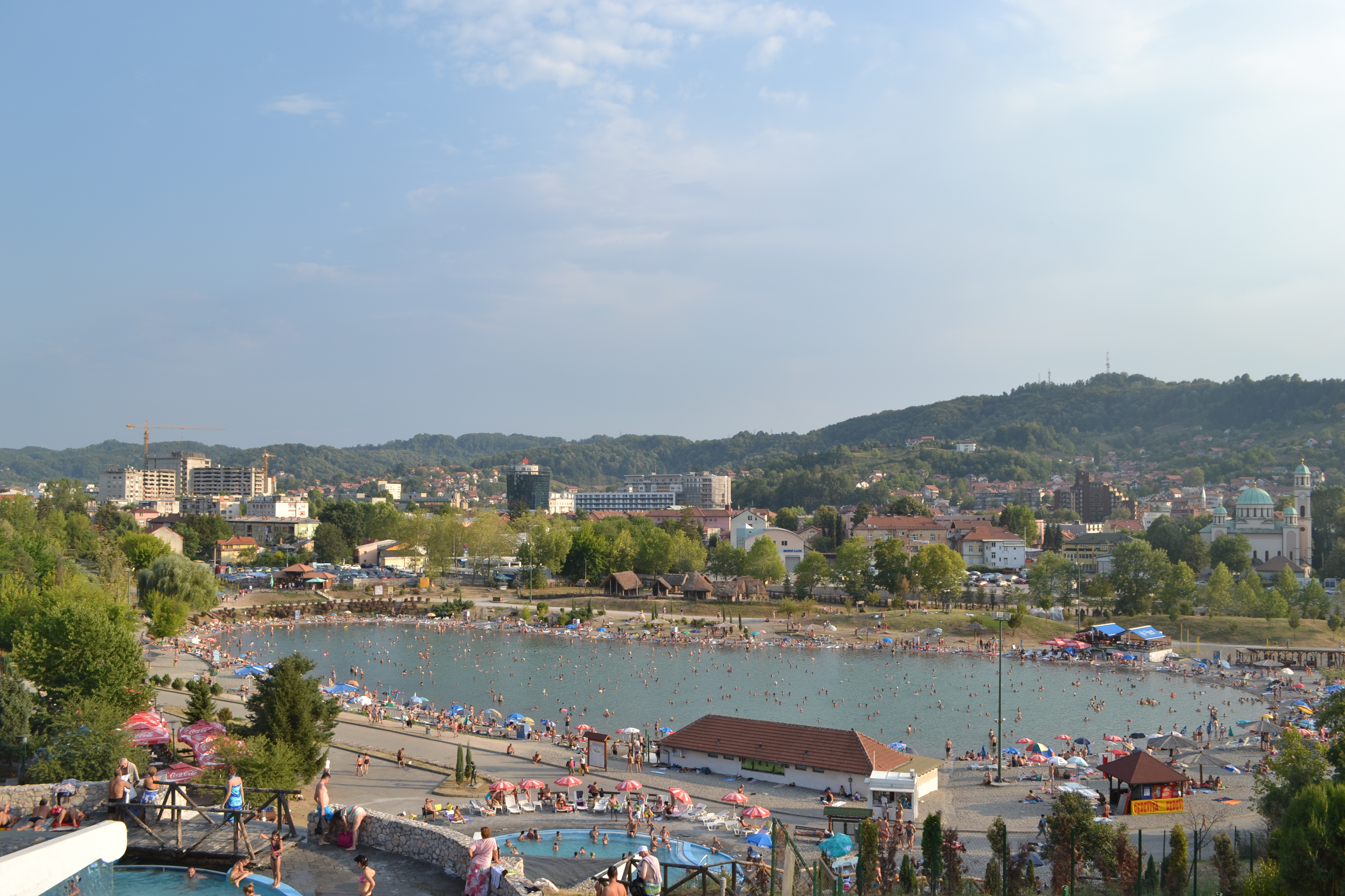 Panonsko Lake